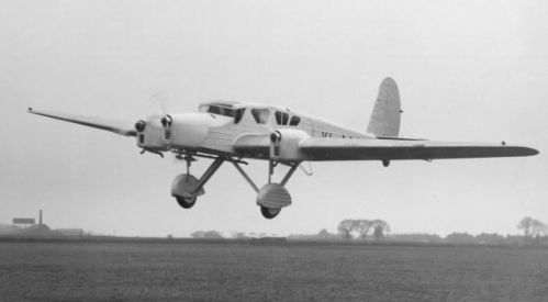 Cruiser mk II Regd G-ACBM [CofR 4056] 12.32 to Airwork Ltd, Heston. Ff 2.33. CofA issued 21.2.33. Transferred to Iraq Airwork Ltd and regn cld 2.33 as sold. Regd YI-AAA 2.33 to Iraq Airwork Ltd.